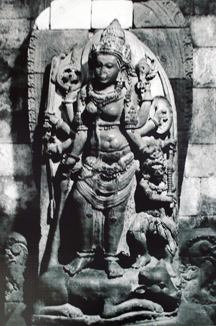 Statue of Durga Mahisashuramardini or according to local legend known as Loro Jonggrang, inside northern cella of Shiva temple, Prambanan, Central Java, Indonesia